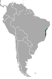 Maned Sloth (Bradypus torquatus) range